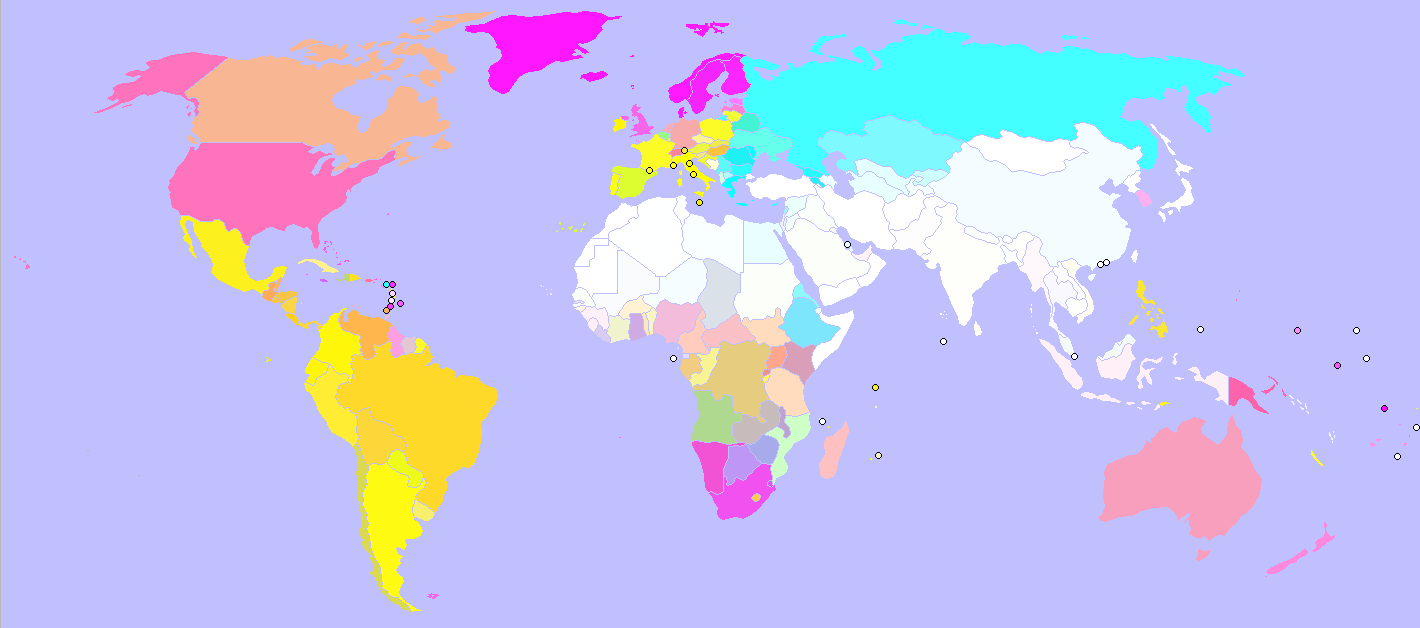 Worldwide distribution of Catholic (yellow), Protestant and Anglican (purple) and Orthodox (cyan) Christians relative to the total population per country. Non-Christians (white) are also noted. (source for claims?)